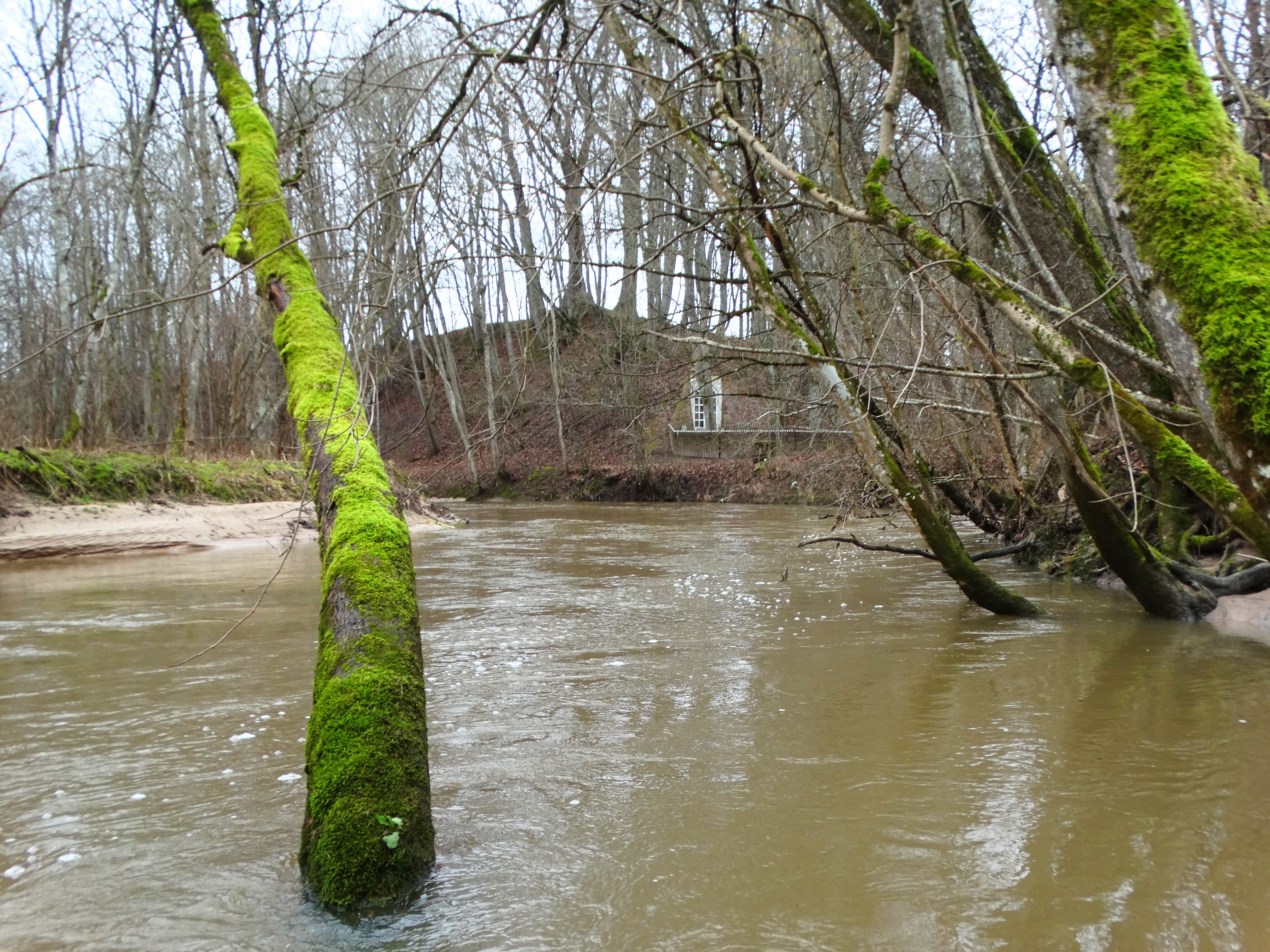 River Luoba in Užluobė, Skuodas District, Lithuania